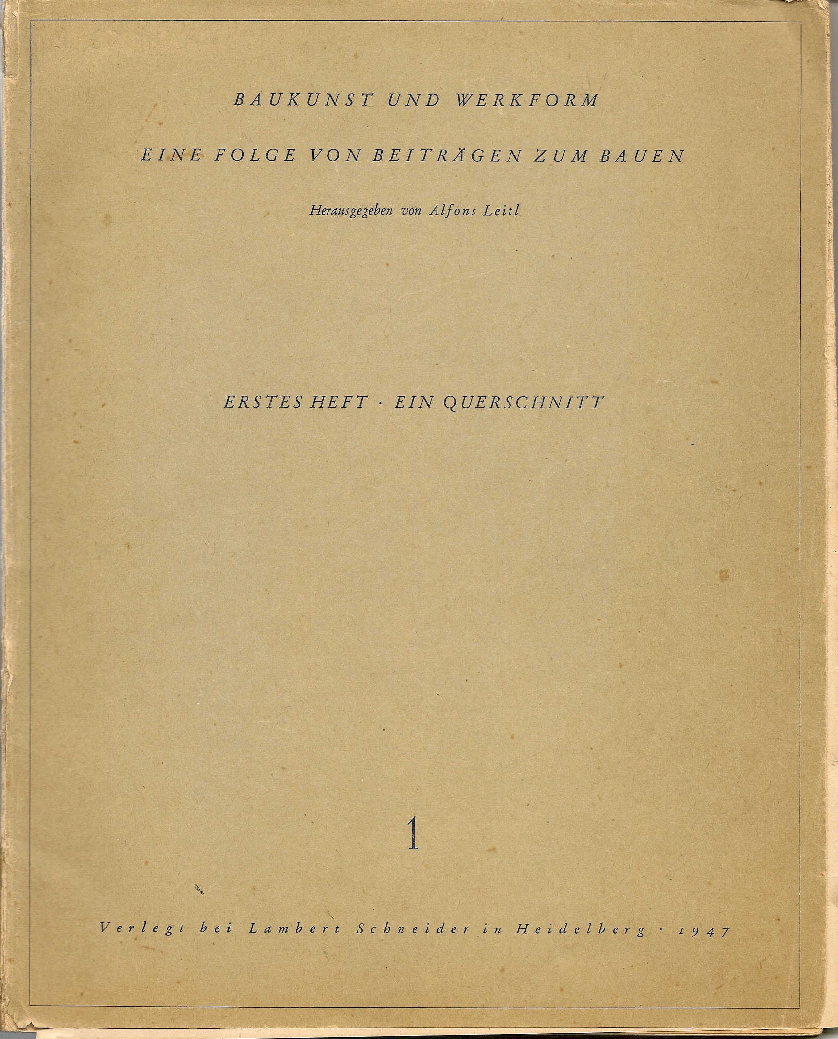 Baukunst und Werkform is a westgerman journal of architecture founded 1946.